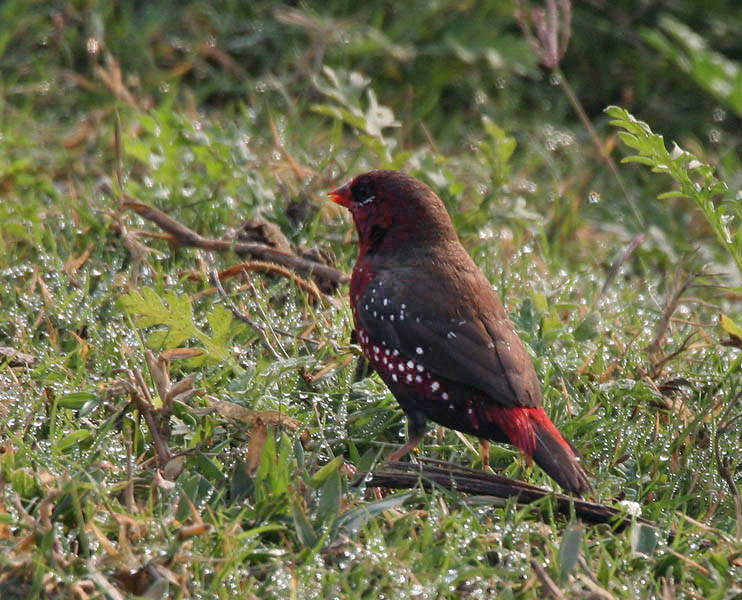 Red Avadavat Amandava amandava in Kolkata, West Bengal, India.